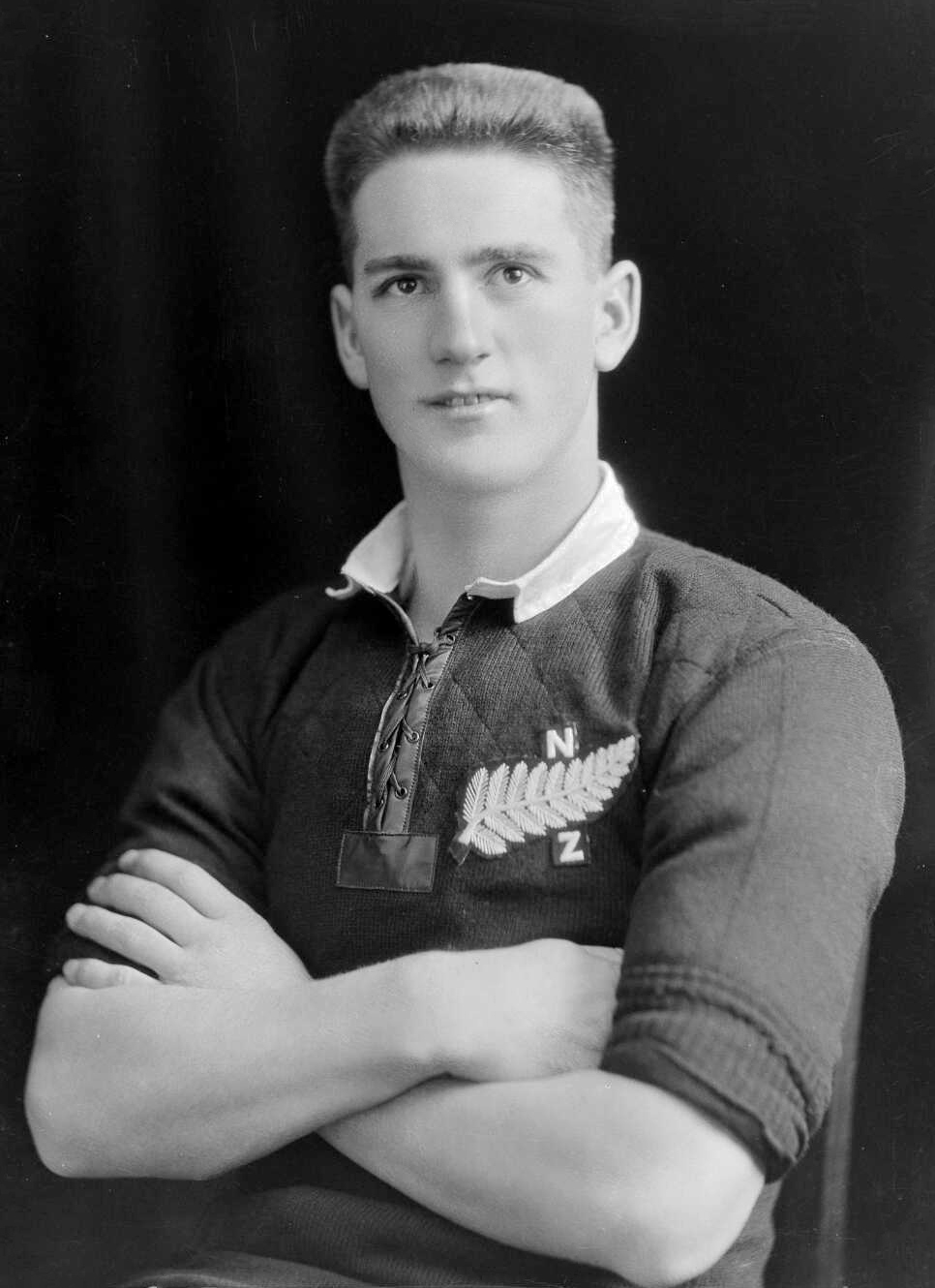 Photograph of All Black Ron Stewart, taken by Crown Studio Ltd of Wellington.